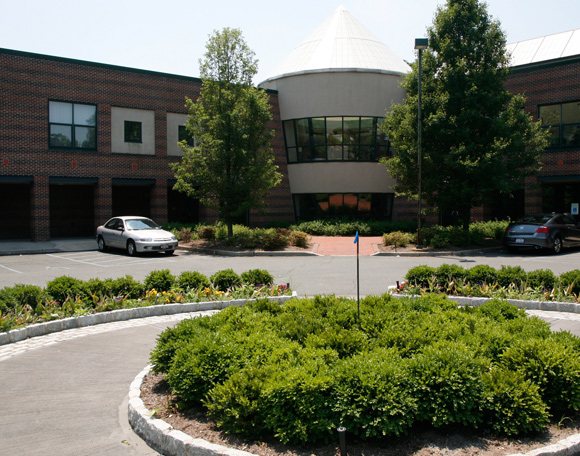 Children’s Rehabilitation Center in White Plains, NY located within senior living campus.